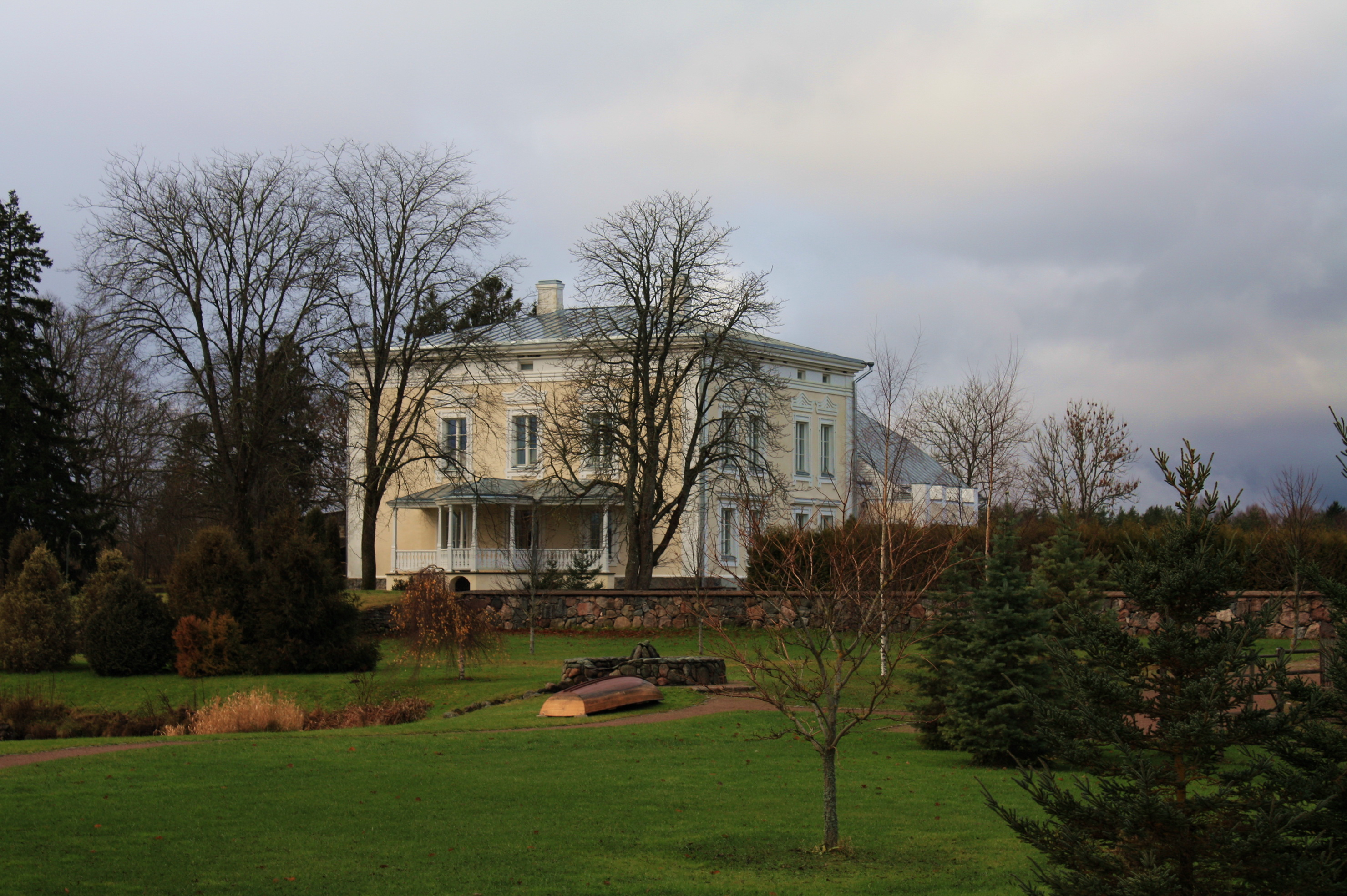 Sausti manor house